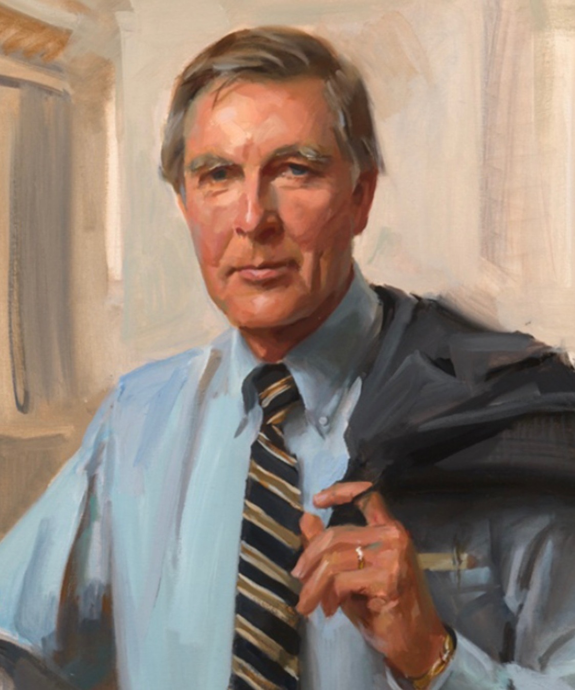 Mo Udall chaired the Interior and Insular Affairs Committee for more than 14 years. His portrait, painted by artist Ray Kinstler, was completed in 1985, halfway through his leadership of the committee. Kinstler placed Udall in a setting of gold-hued architectural details. The Chairman rests his hand on a column base, while corniced walls recede behind him. In contrast, Udall himself presents an informal picture. He stands in shirtsleeves, one finger hooked through a loop on the jacket he’s thrown over his shoulder.